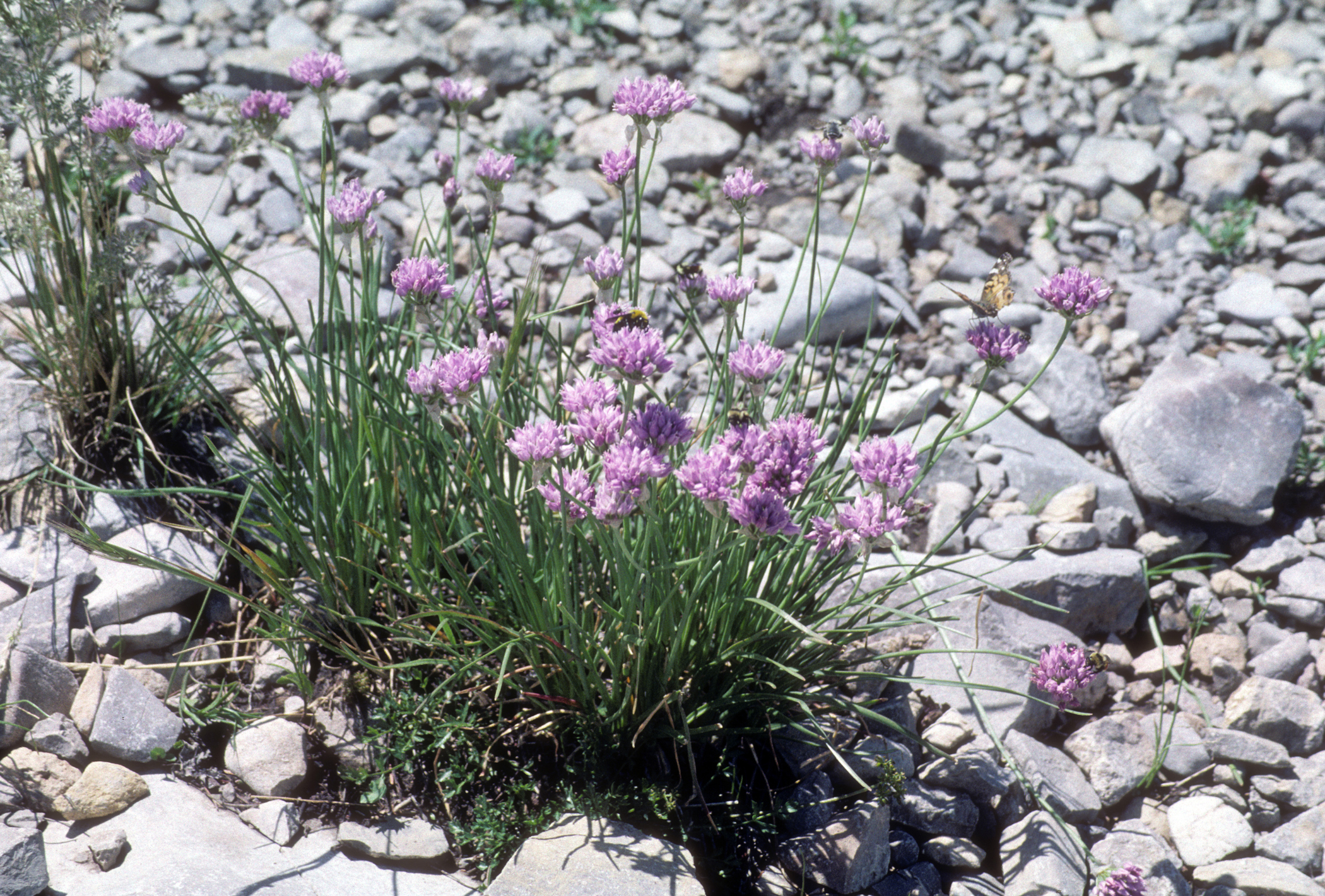 Allium geyeri Sandia Peak, Albuquerque, NM, USA. July 1999. For Xerantheum, who likes alliums